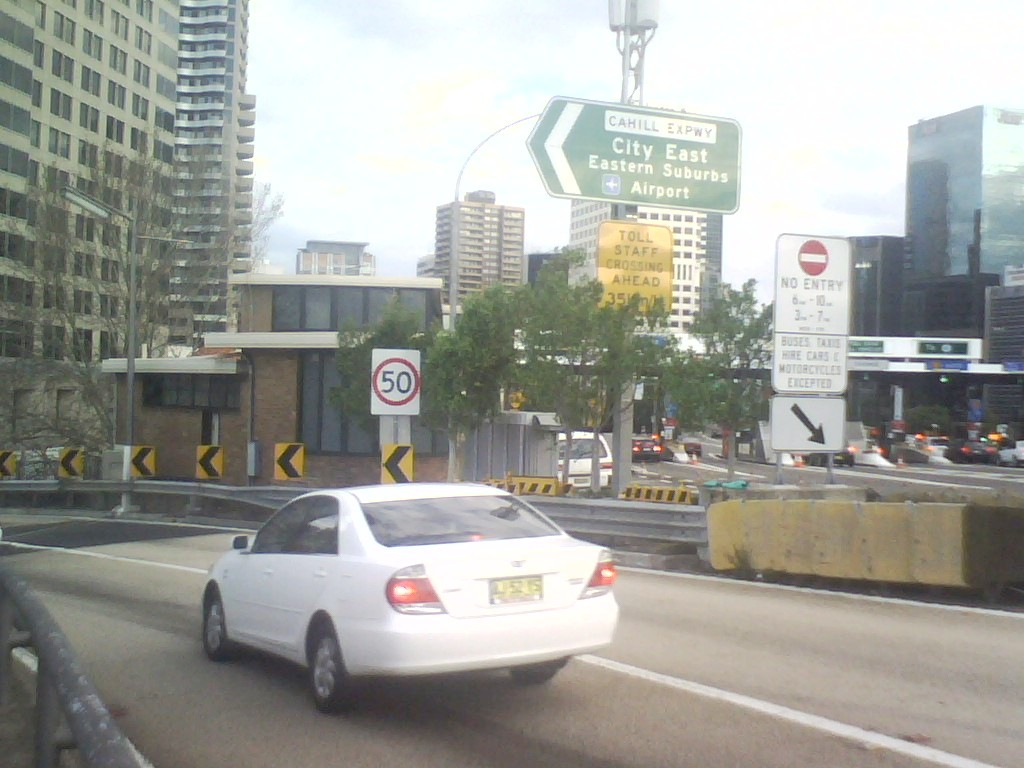 The Cahill Expressway viewed from the Sydney Harbour Bridge at the western end.